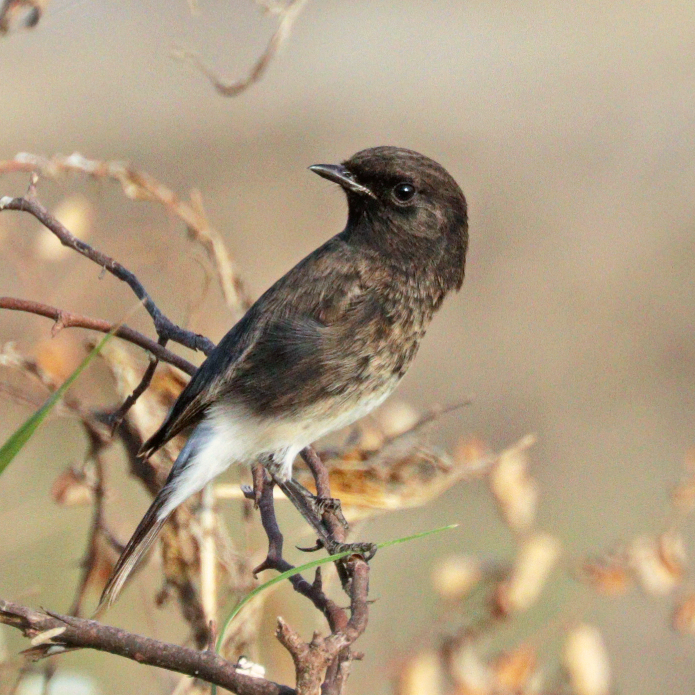 Pied bushchat (Saxicola caprata bicolor) male, Jojawar, Rajasthan, India